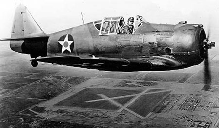 North American P-64 in flight